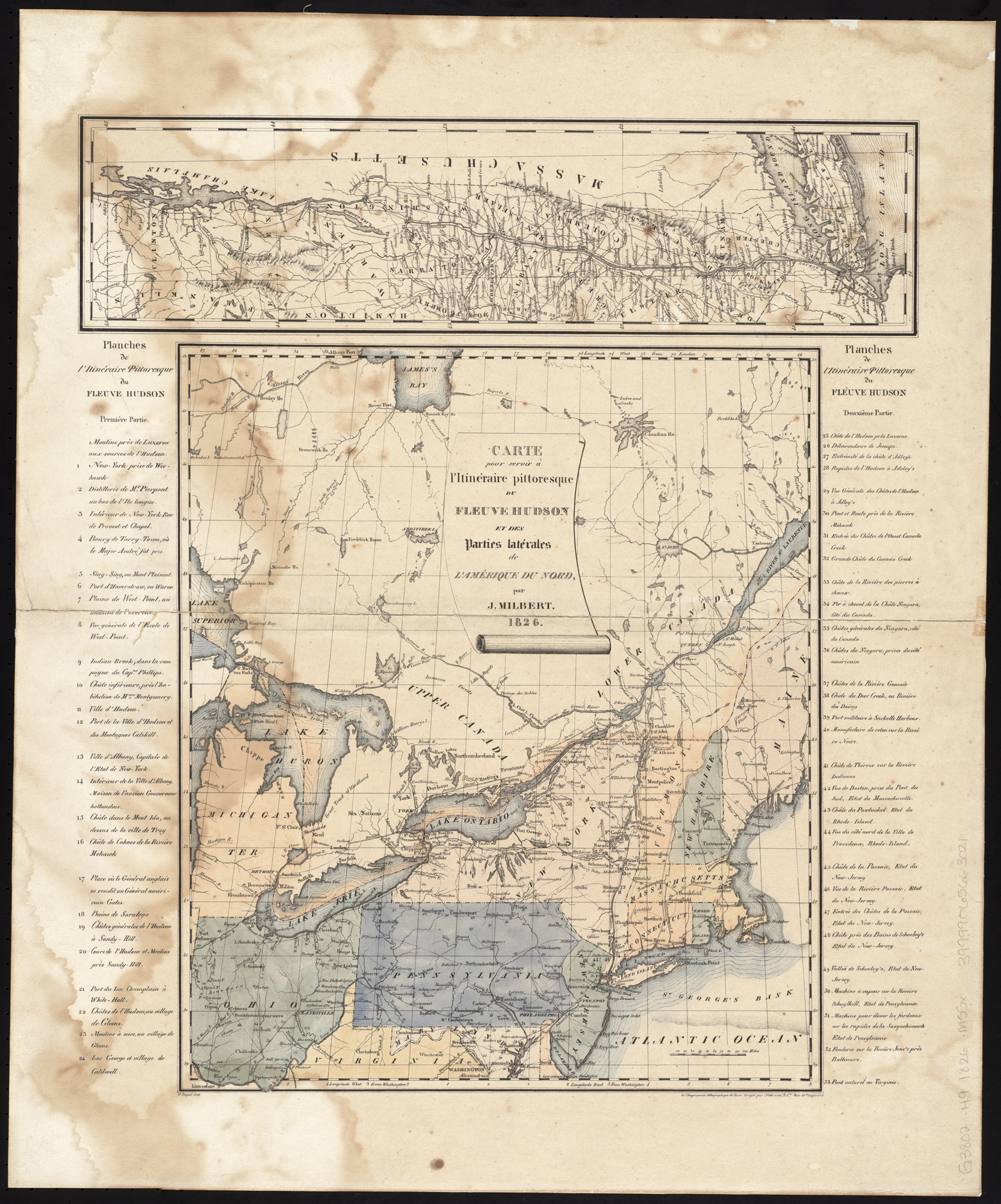 Zoom into this map at . Author: Milbert, Jacques Gérard Publisher: Gaugain, Henri Date: 1828 Location: Hudson River (N.Y. and N.J.), Northeastern States Dimensions: 38 x 32 cm. Scale: [ca. 1:4,200,000] Call Number: G3802.H9 1826 .M55x